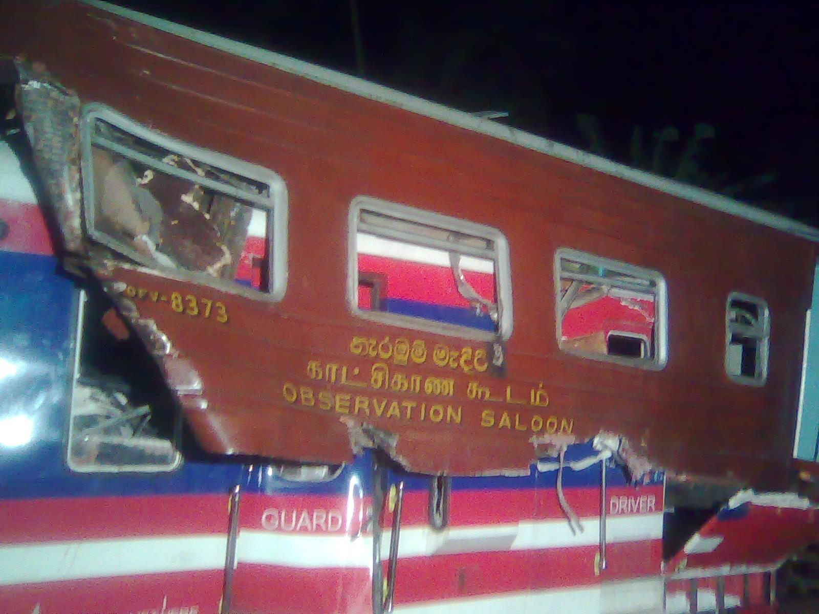 Two sri lankan trains collide together. indian manfactured class s11 and udarata manike